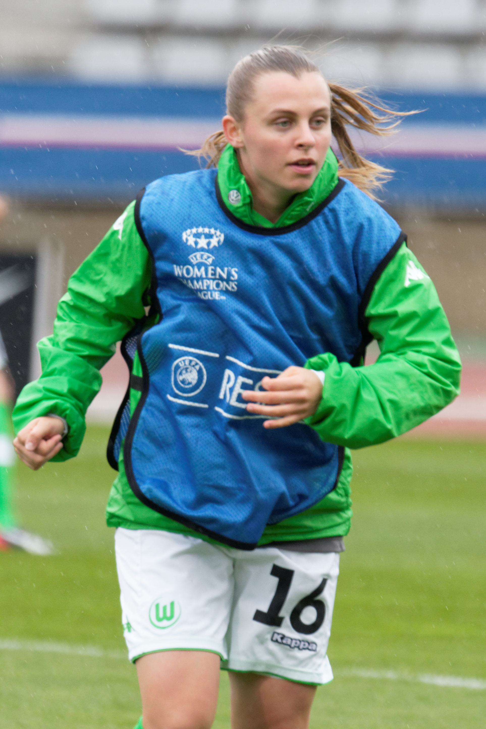 UEFA Women's Champions League, PSG - Wolfsburg, 26 April 2015.